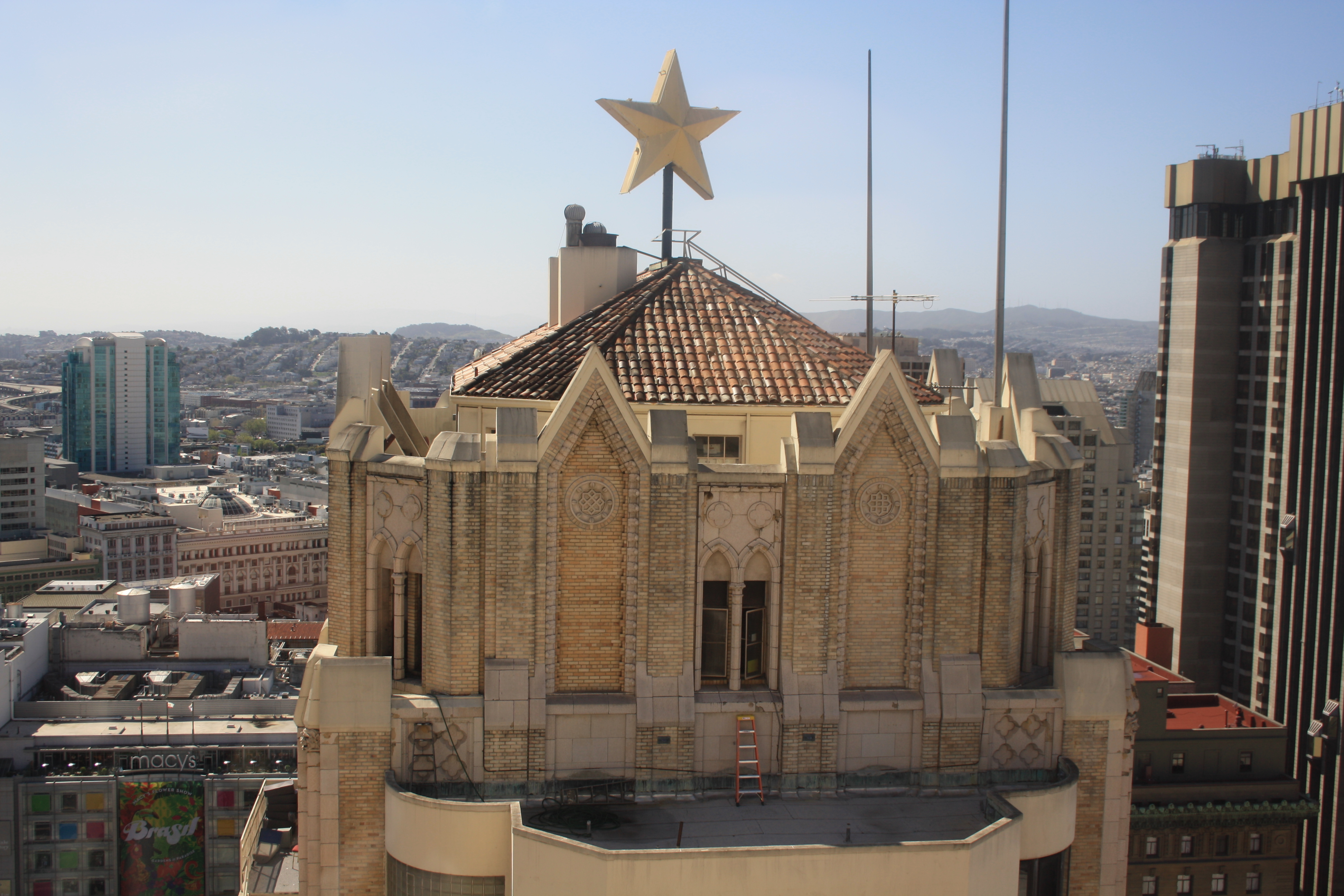 Hotel Francis Drake, San Francisco, view of the rotating star on the top